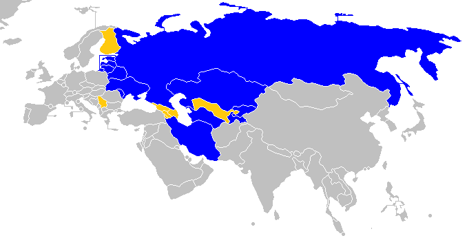 Map of the participants of the 2012 Commonwealth of Independent States Cup.